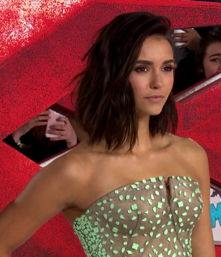 Nina Dobrev at XXX: Return of Xander Cage premiere in London